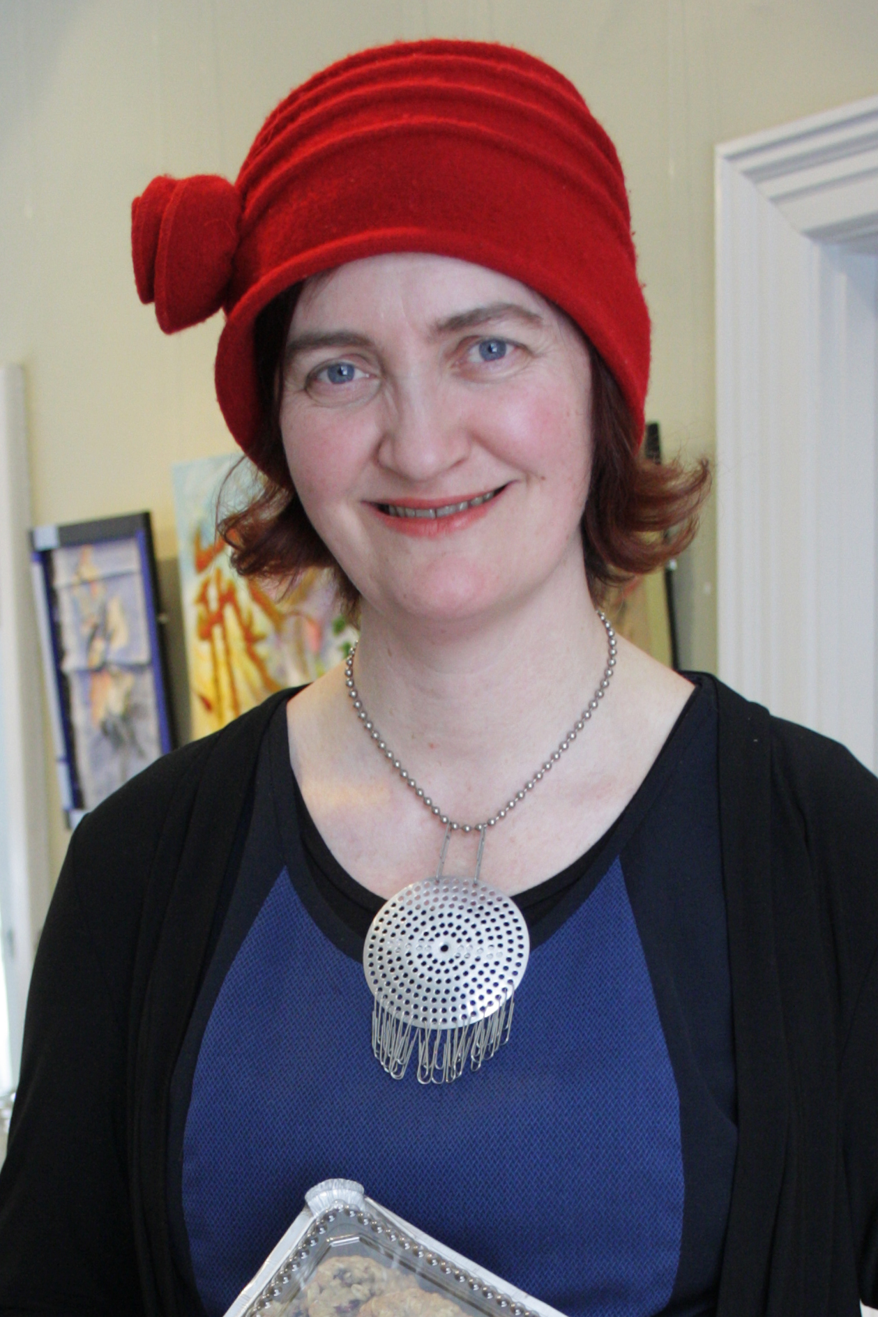 Irish-Canadian author Emma Donoghue on February 18, 2015 in Toronto